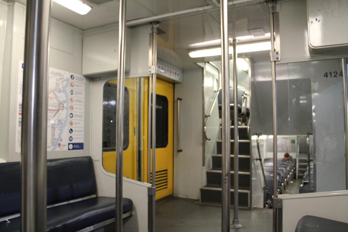 various features inside a L, R and S set vestibule